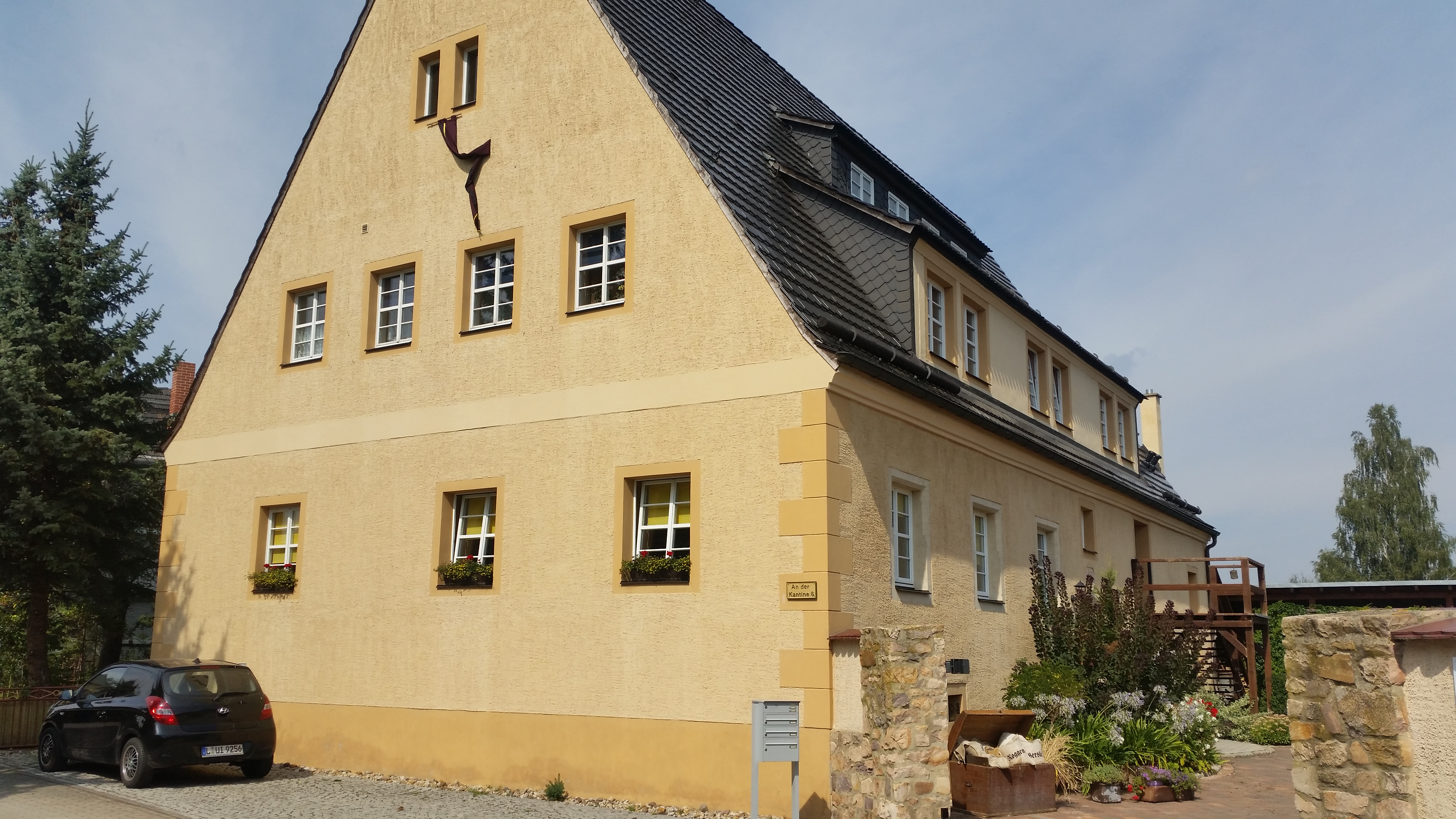 Old mill in Benndorf (Froburg, Germany)